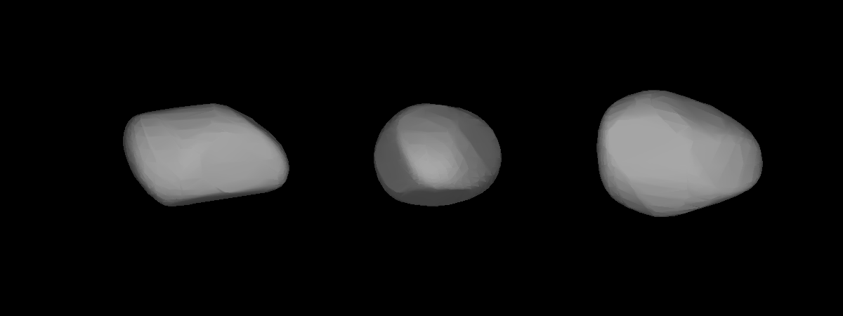 A three-dimensional model of 665 Sabine that was computed using light curve inversion techniques.